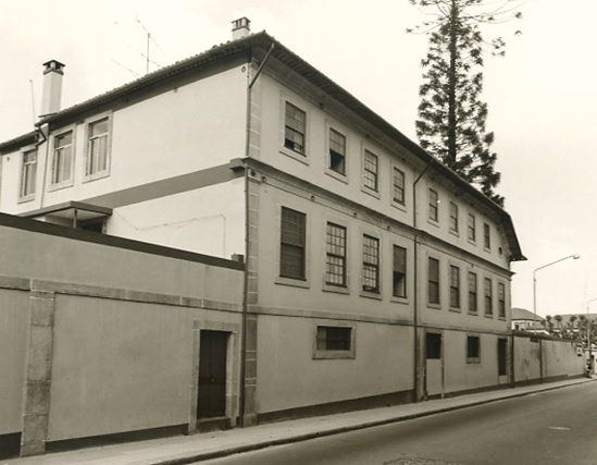 Convent of the Good Shepherd Sisters in Paranhos, Porto (Portugal).